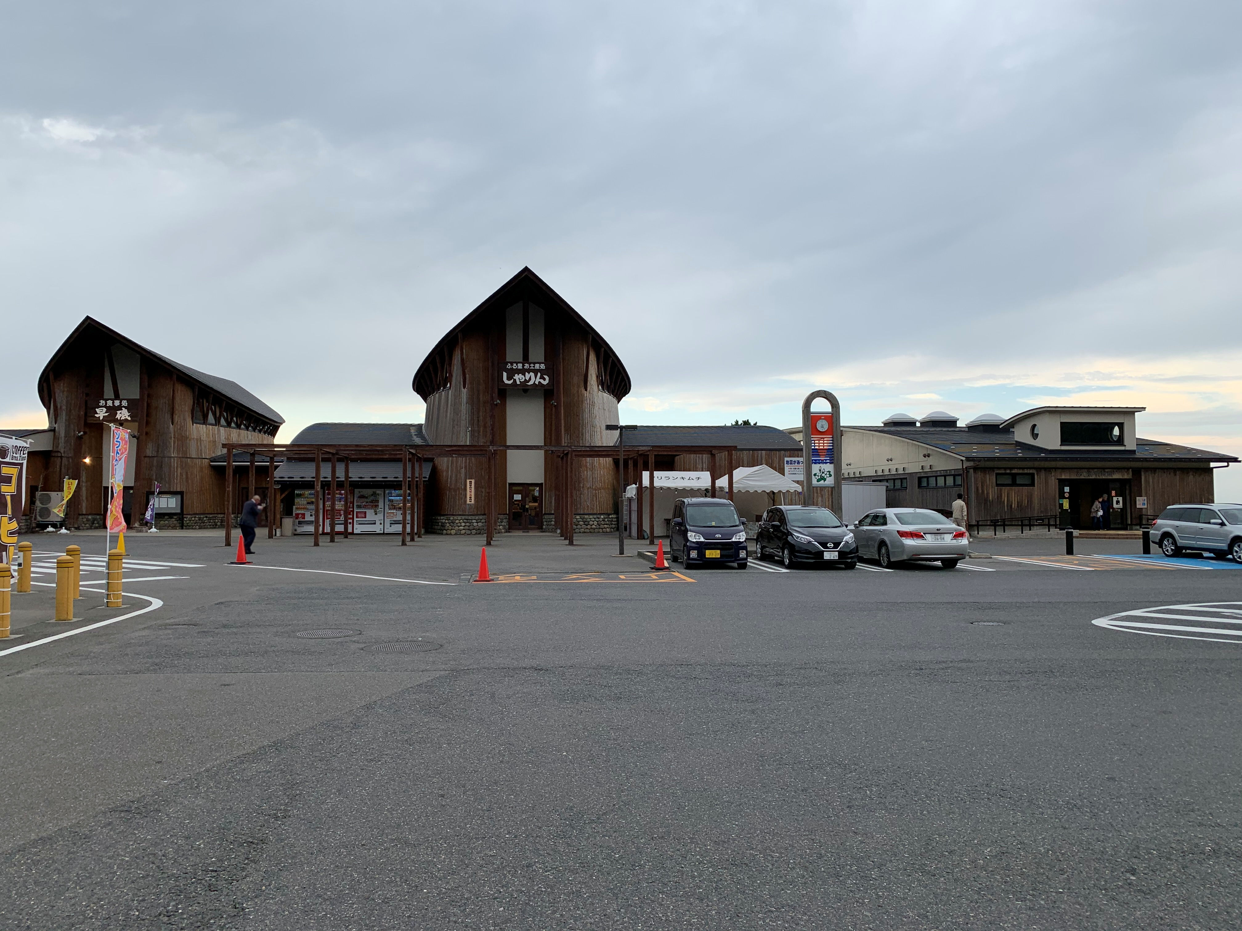 Atsumi, Michi no Eki (Roadside Station), Yamagata, Japan. Took photo in October 2019.